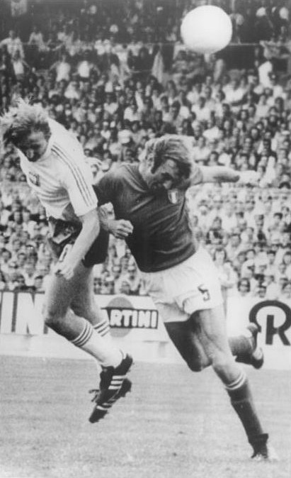 Andrzej Szarmach shot first goal over Francesco Morini during 2:1 match Poland-Italy, in 1974 FIFA World Cup, 23.06.1974